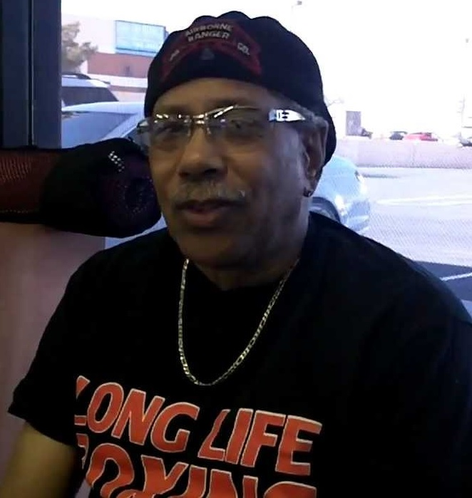 Kenny Adams in March 2012